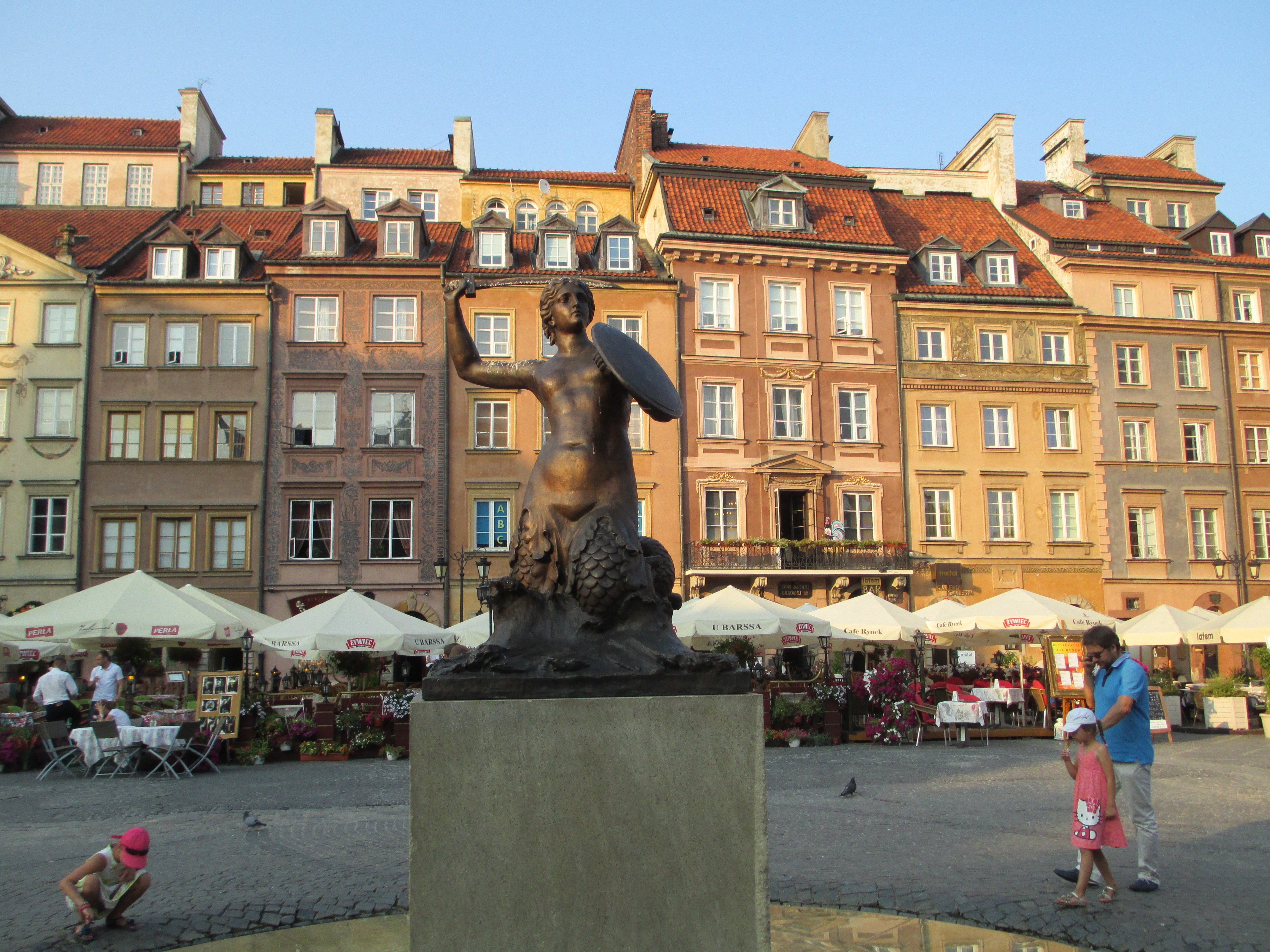 mermaid (syrenka) in old warsaw market square